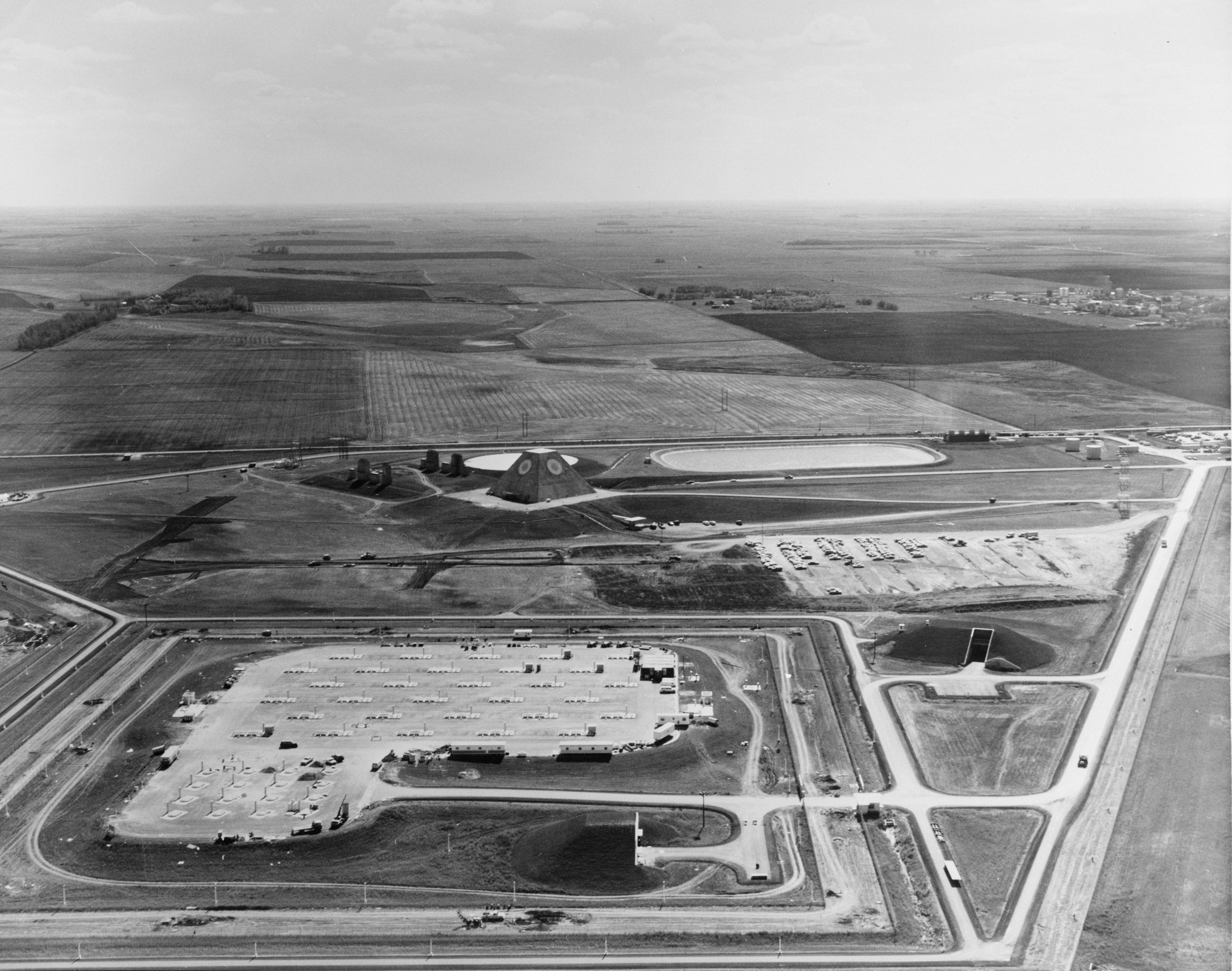 Stanley R. Mickelsen Safeguard Complex, Missile Site Control Building, Northeast of Tactical Road; southeast of Tactical Road South, Nekoma vicinity, Cavalier County, ND.